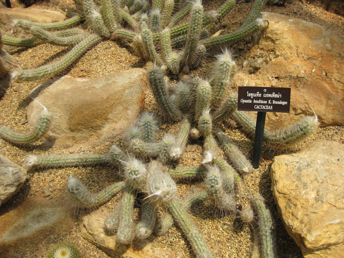 Photographed at the Queen Sirikit Botanic Garden (Chiang Mai Province, Thailand) in March